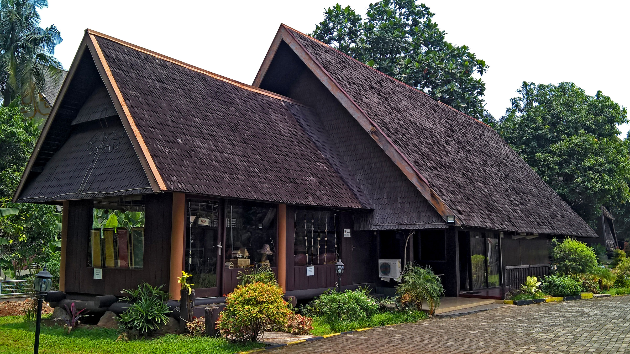 Anjungan Sulawesi Tengah (Central Sulawesi Pavilion) in the Taman Mini Indonesia Indah, March 2017.